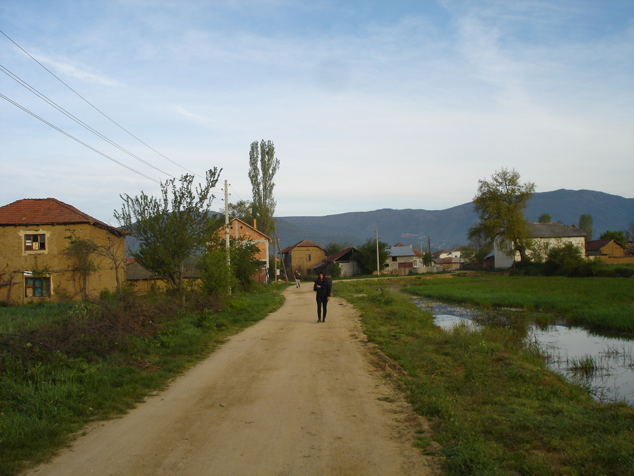 village of Sekirci, in Dolneni Municipality, near Prilep, Macedonia